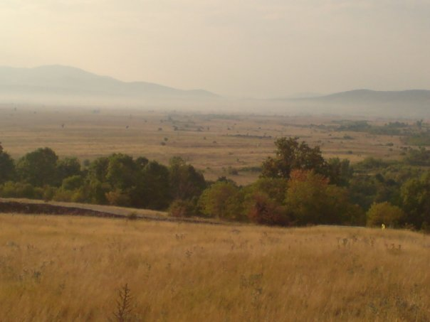 Krbava field and its beauty